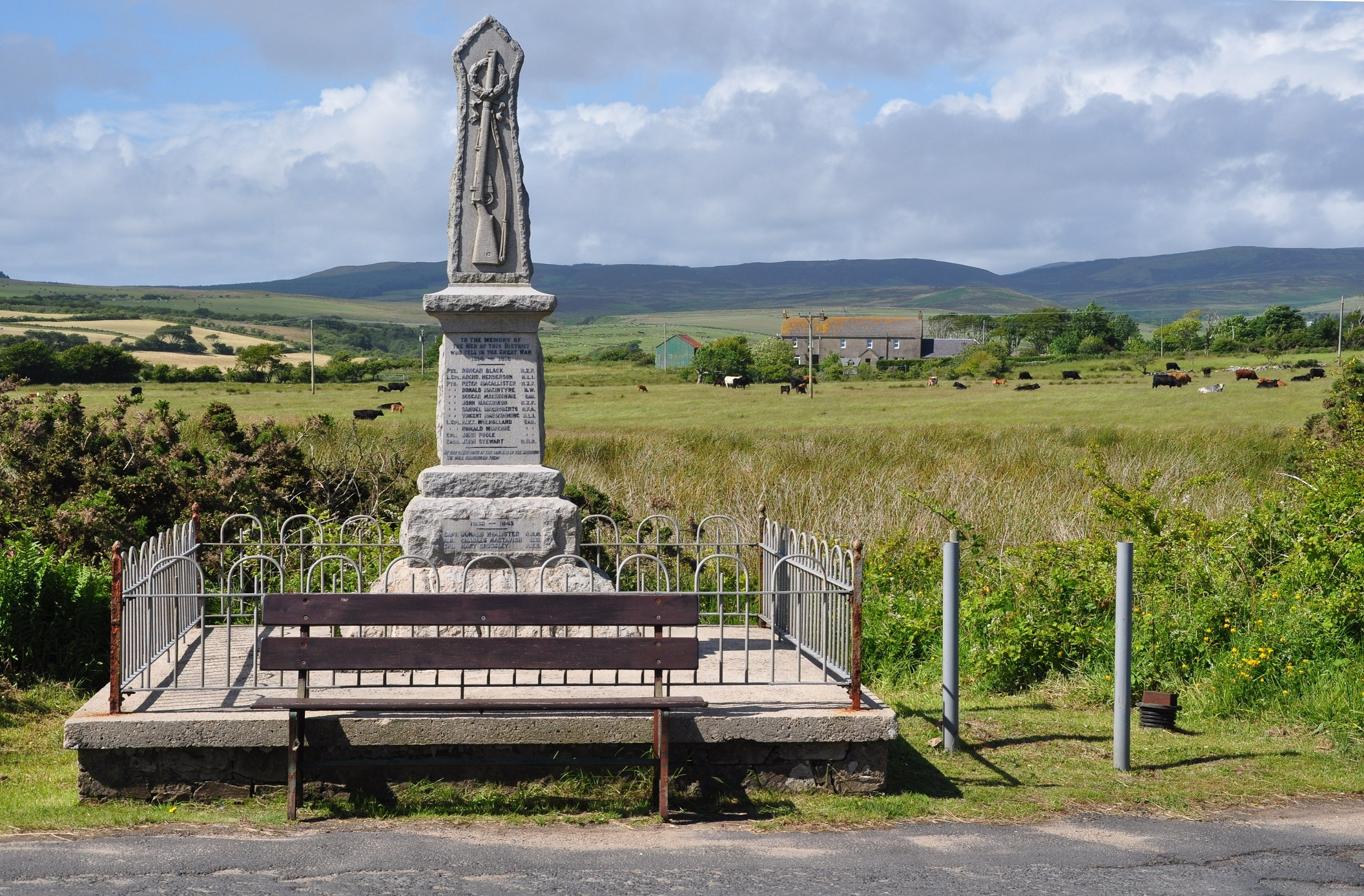 World War I (and II) Memorial between Lagg and Sliddery at the intersection of the Ross Road and the Ring Road (=coastal Road), Isle of Arran, Scotland.